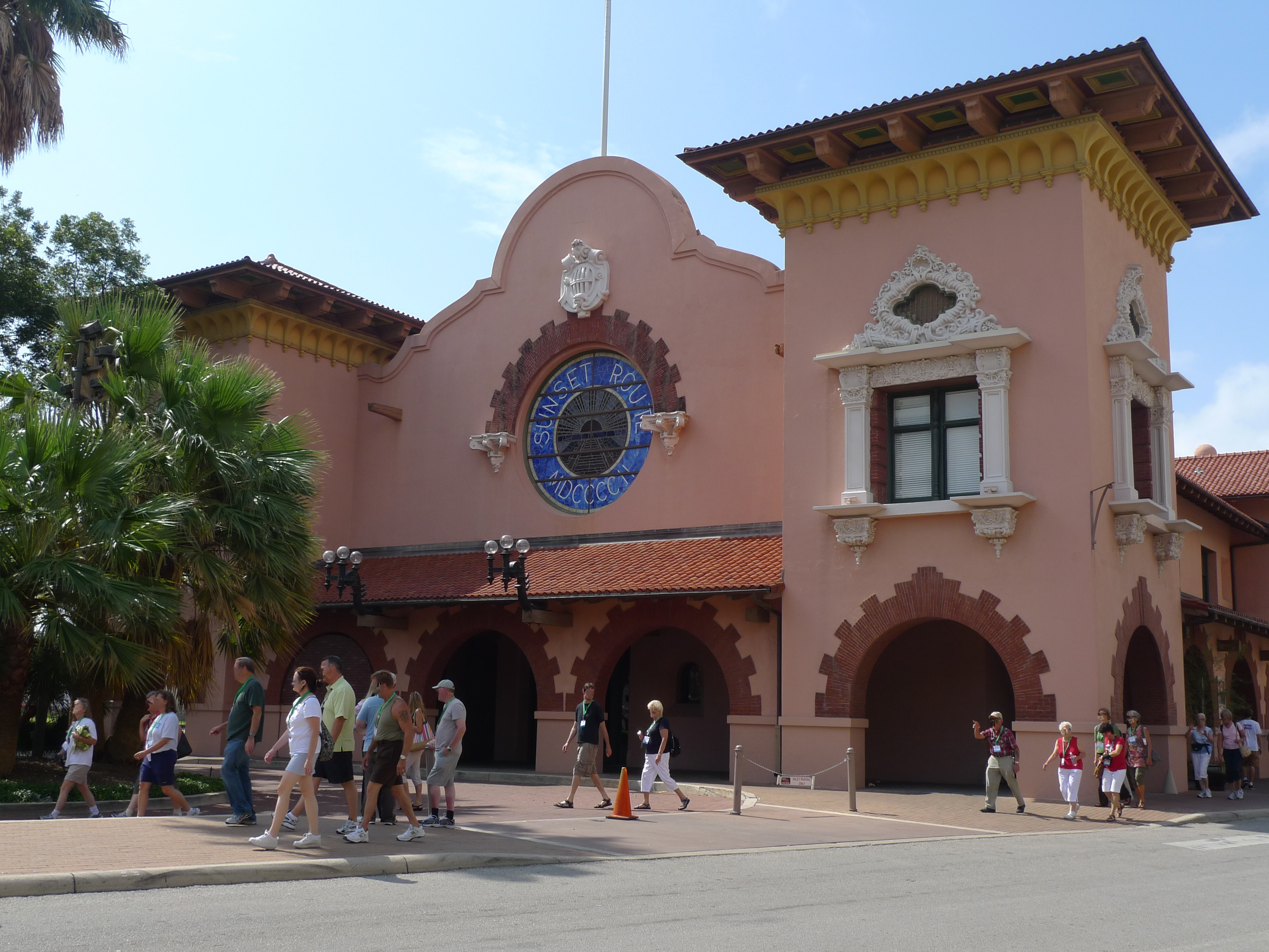 San Antonio Station serves as the Amtrak train station in San Antonio, Texas. It serves two Amtrak lines; the Sunset Limited and the Texas Eagle. The two lines are actually part of the same train from Los Angeles, California, but splits at this station with the Sunset Limited continuing onto New Orleans, Louisiana and the Texas Eagle to Chicago, Illinois. Amtrak previously utilized the historic Southern Pacific Railroad Station, also known as the Sunset Station, which was designed by SP's architect Daniel J. Patterson, and built in 1902 by the Southern Pacific Railroad. The design is in the Spanish Mission Revival style. It was listed on the National Register of Historic Places in 1975. Amtrak moved operations in 1998 to a smaller depot that was built adjacent to the older station. Under its owner, VIA Metropolitan Transit, the historic building underwent an extensive restoration and now serves as an entertainment complex. The station also neighbors the Alamodome. There is even a preserved 2-8-2 Baldwin "Mikado" steam locomotive that had belonged to the Southern Pacific railroad, was donated to the City of San Antonio at the end of its service life in 1956, and placed on static display at nearby Maverick Park for many years before being relocated to the station. Another "Mikado", donated simultaneously to the City of Austin, is operated on excursion trains for live steam enthusiasts by the Austin Steam Train Association.